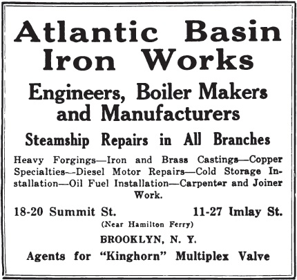 An October 1918 advertisement for the Atlantic Basin Iron Works, a ship repair and conversion company in Brooklyn, New York.